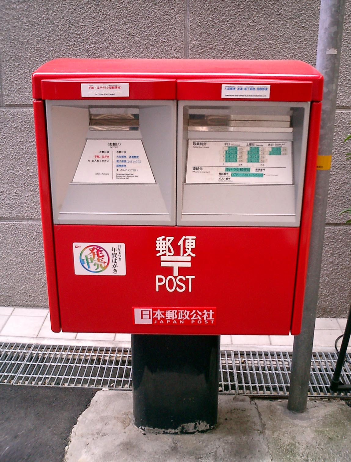 Japan_Mailbox_Red(This type is general in Japan.)